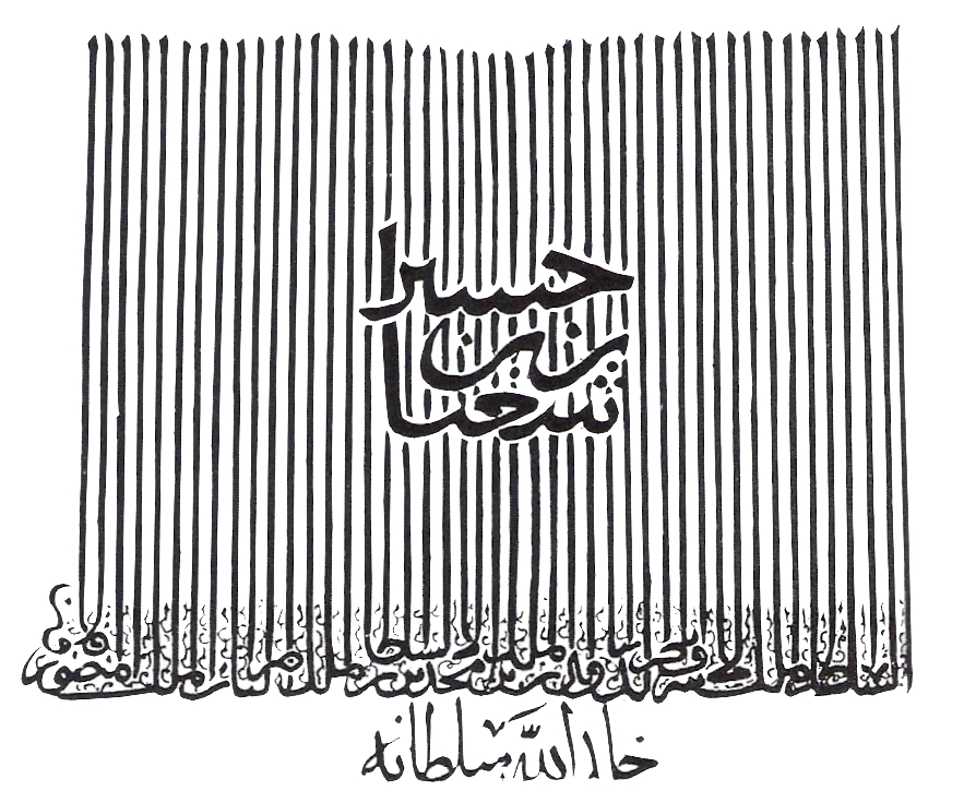 Qalqasandi's design for the tughra of the mamluk sultan al-Asharf Sha 'han (r. 1363-1377)